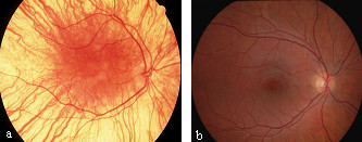 Fundus picture of a patient with albinism (a) and fundus picture of a normal eye (b).